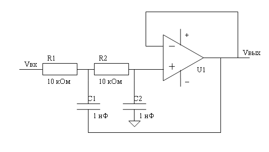 Sallen-Key filter, Russian language